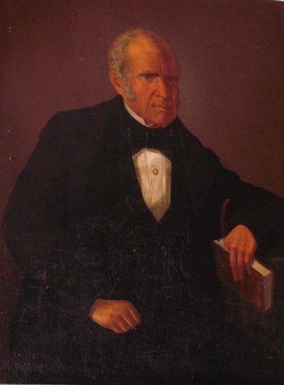 Giovan Battista Palermo di Santa Margherita portrait